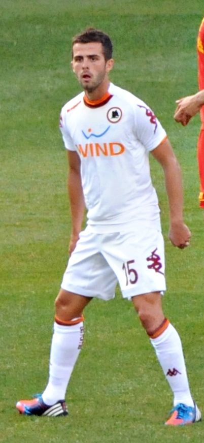 LFC vs Roma @ Fenway Park (Boston, Massachusetts)